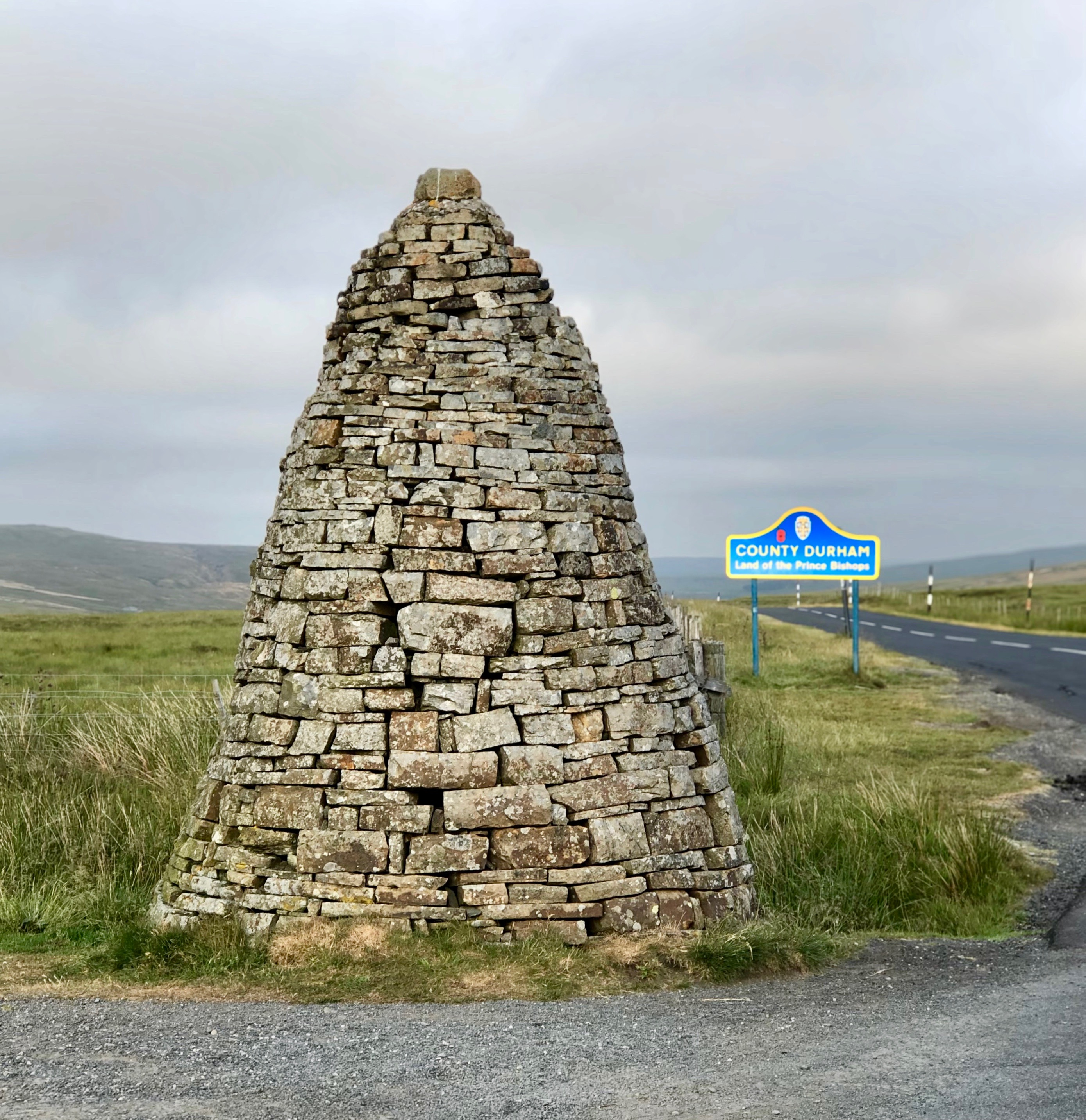 Cairn at the border of Counties Durham and Northumberland